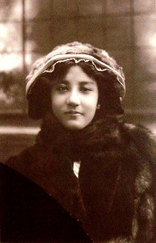 Portrait of Princess Sudhira Mander (1894-1968)